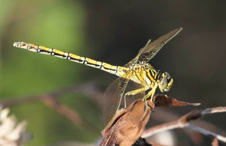 Female Ceratogomphus pictus (Common Thorntail) near Harburg, KwaZulu-Natal. OdonataMAP record no. 2992.